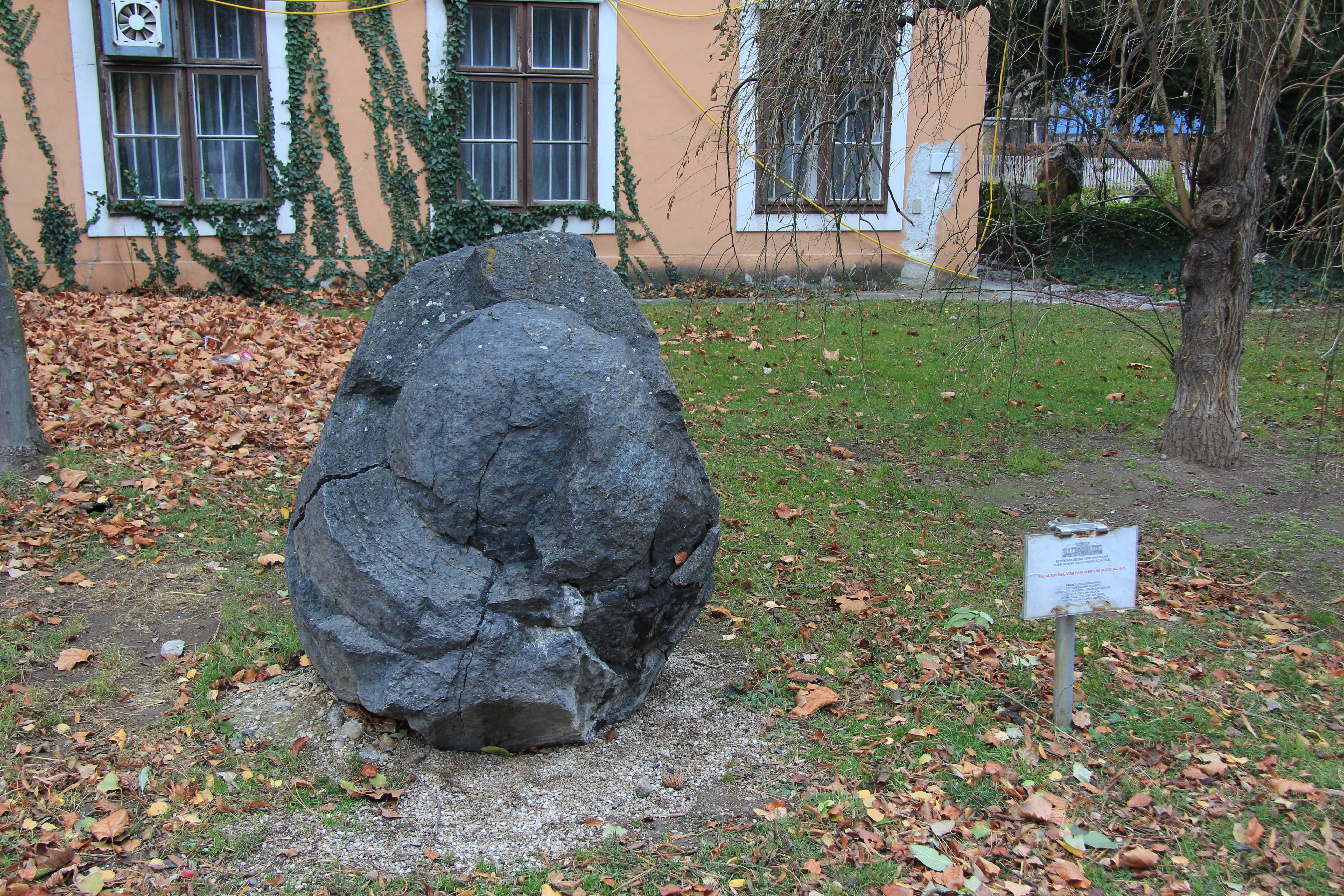 Volcanic bomb of basalt from Pauliberg extinct volcano in the Burgenland area of Austria. The lava bomb is displayed in the grounds of the museum at Mödling, Austria.